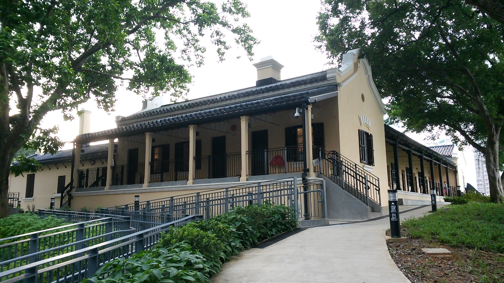 The Green Hub - Main Building